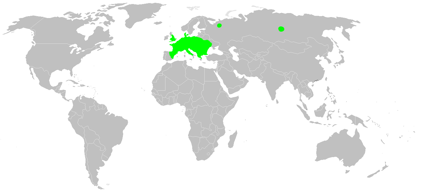 Known world distribution of Tegenaria silvestris (syn. Malthonica silvestris); data from British Arachnological Society, 2006